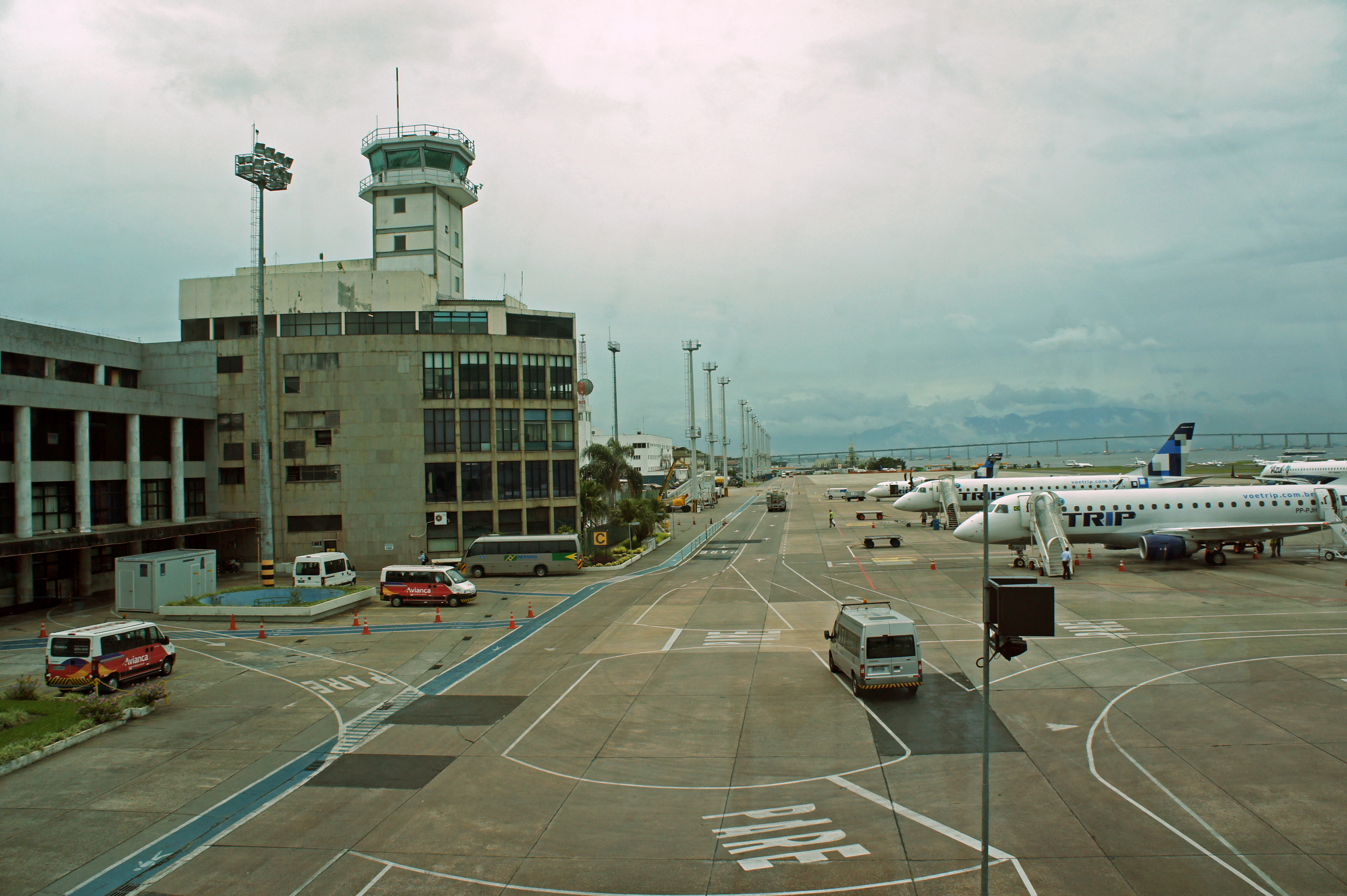 Tarmac and control tower, Santos Dumont Airport, Rio de Janeiro, Brazil